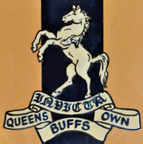 Badge, Queen's Own Buffs (the Royal Kent Regiment) 1961-66 when amalgamated with the Queen's Regiment